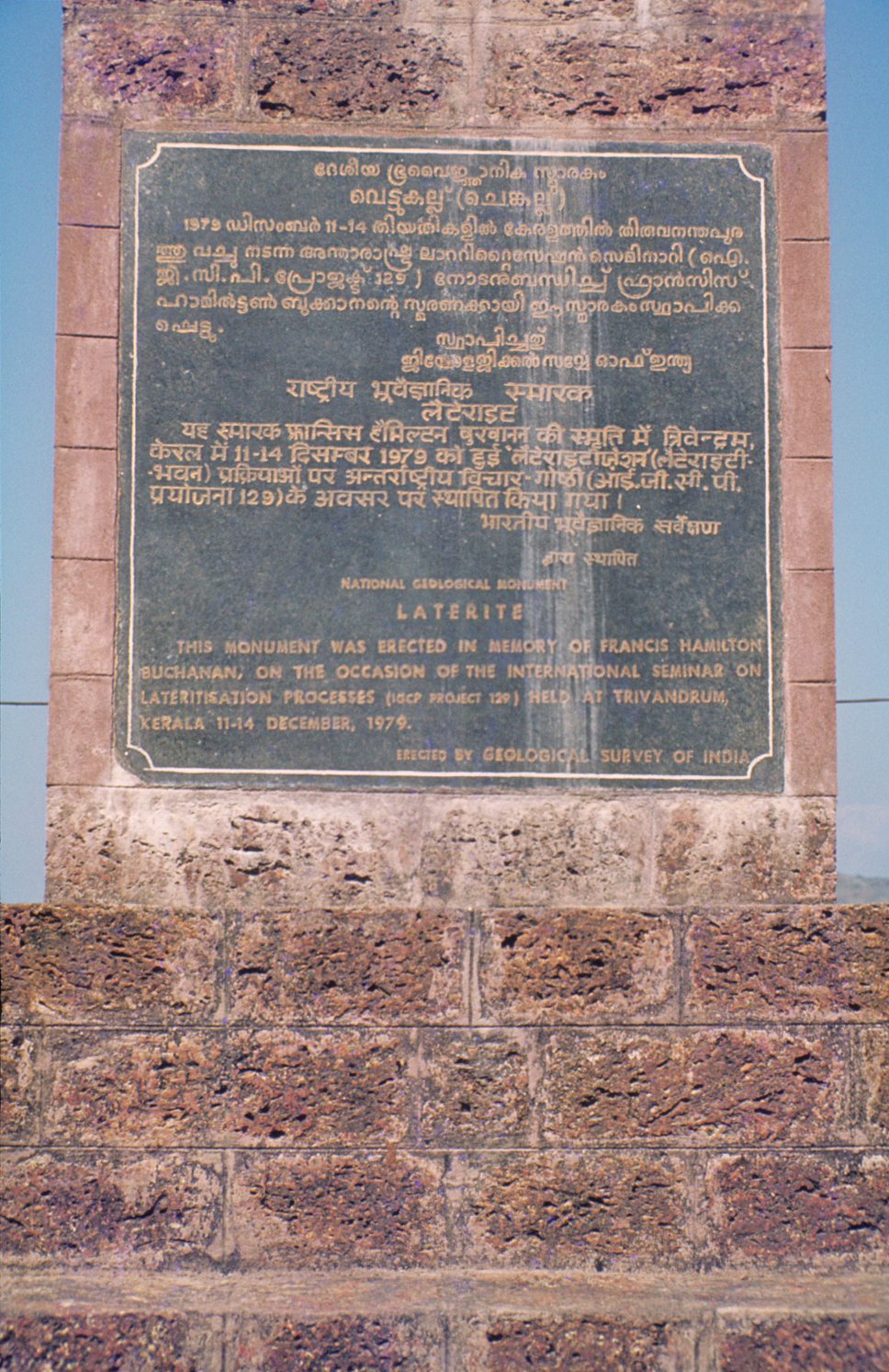 Monument of laterite brickstones at Angadipuram, Kerala, India. At this locality laterite was firstly described and discussed by Francis Buchanan in 1807.